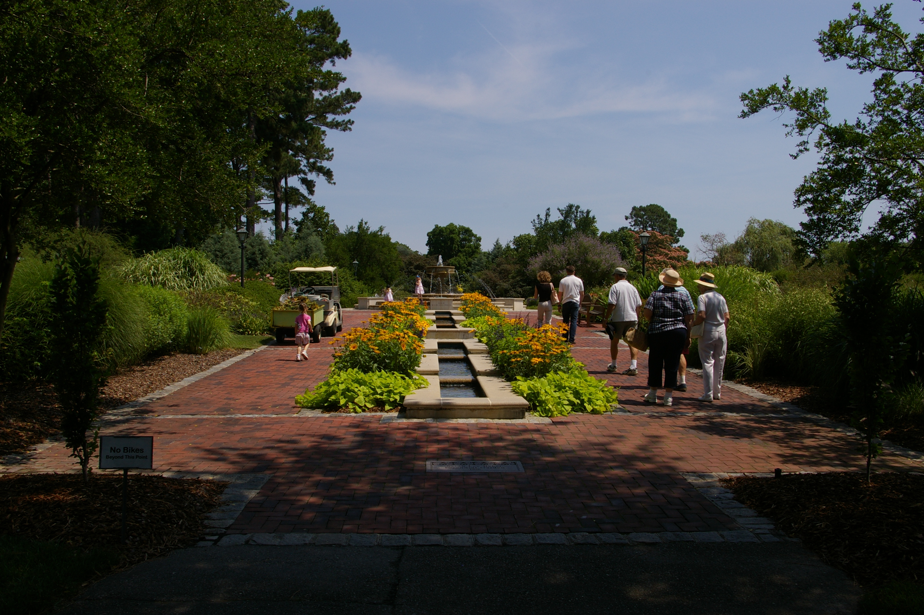 Perennial garden at the Norfolk Botanical Garden in Norfolk, Virginia. June, 2007. Photographer: Joy Schoenberger.